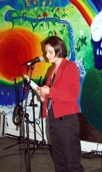 Petra von der Fehr performing at MUO 2001 at Stortinget stasjon in Oslo.